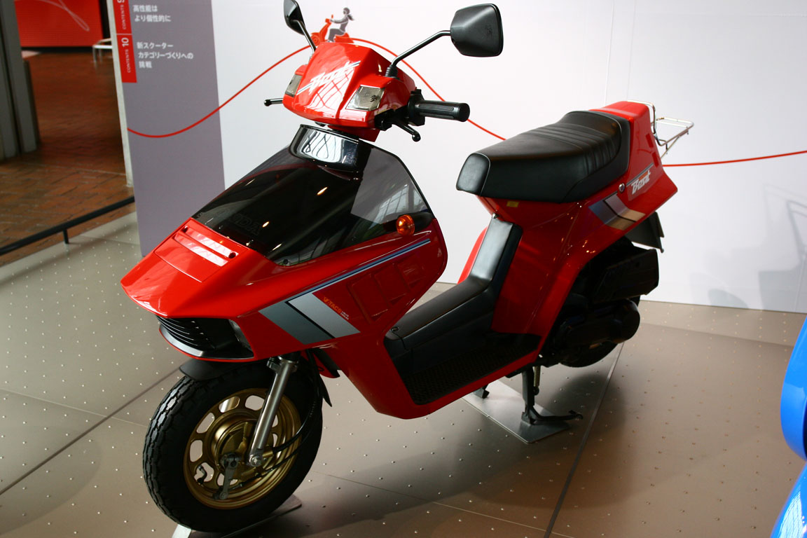 HONDA BEAT photographed in Honda Collection Hall. Scooter equipped with the first Water-cooled engine in the world.